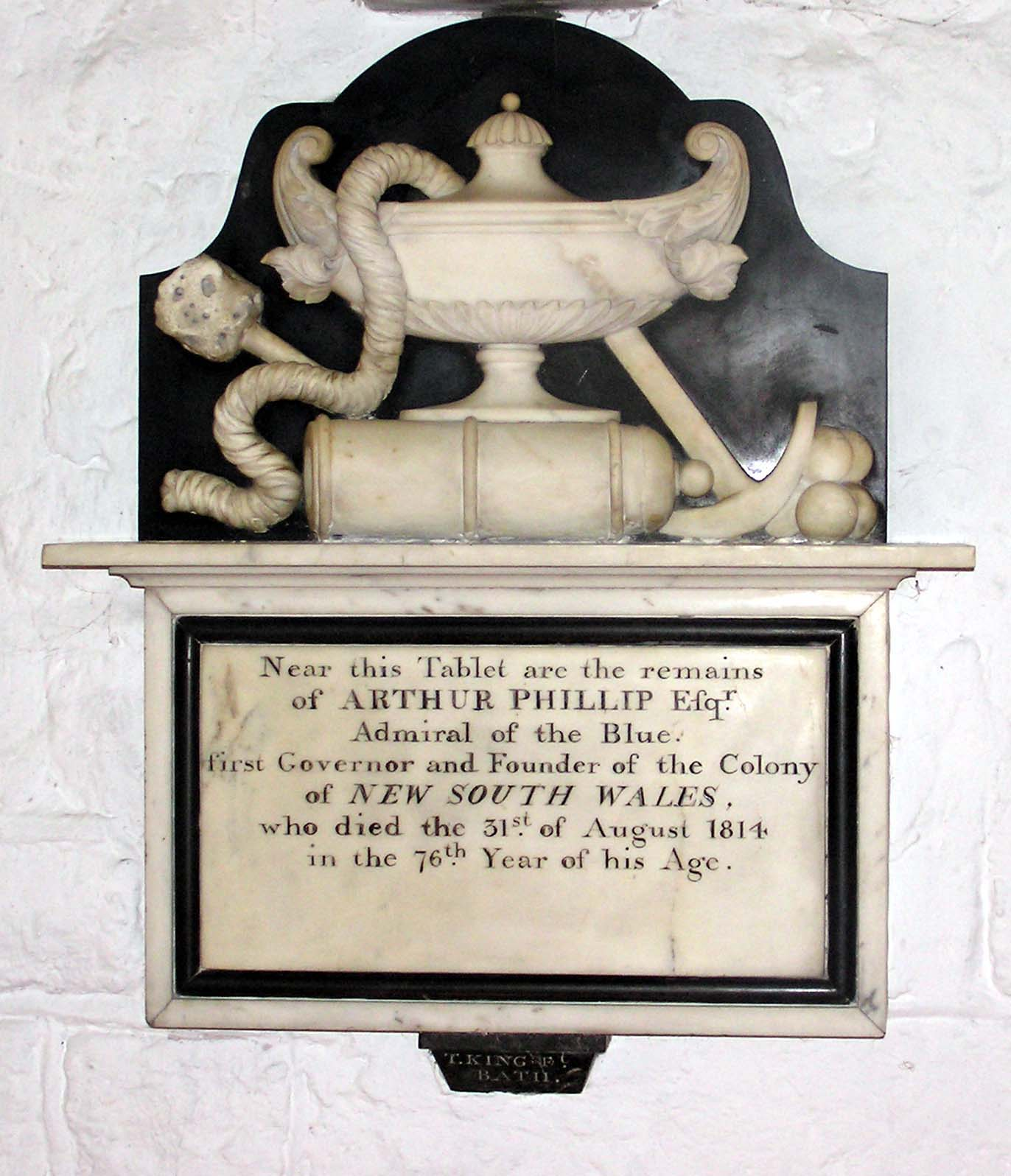 Arthur Phillip Memorial The memorial to Arthur Phillip on the wall of the Australia Chapel in St Nicholas Church, Bathampton, near Bath, England. (Sorry about the misspell of his name in the filename). Photographed by Adrian Pingstone on 31st May 2006 and placed in the public domain.